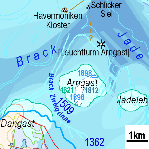 The island Arngast, detail from File:JadeWeser.png: Development of the Jadebusen (Jade Bight) and the interim delta of Weser river• blue areas = advancement of waterbodies• green areas = growth of land• grayish pale blue areas = sometimes flooded• grayish lilac areas = newly gained land lost again• grayish pink areas = regained land lost again• brown to red lines = dikes• bold intensive light blue line = today's coastline• light blue lines = today's forshore limit• bold pale blue lines = forshore limit c. 1810• dirty lilac lines = foreshore limit c. 1645• light pink to light lilac, ocre and light green lines = geological soil borders.Areal colours are uesd almost only for new won land. Regaining of losses mostly is marked only by the dikes.